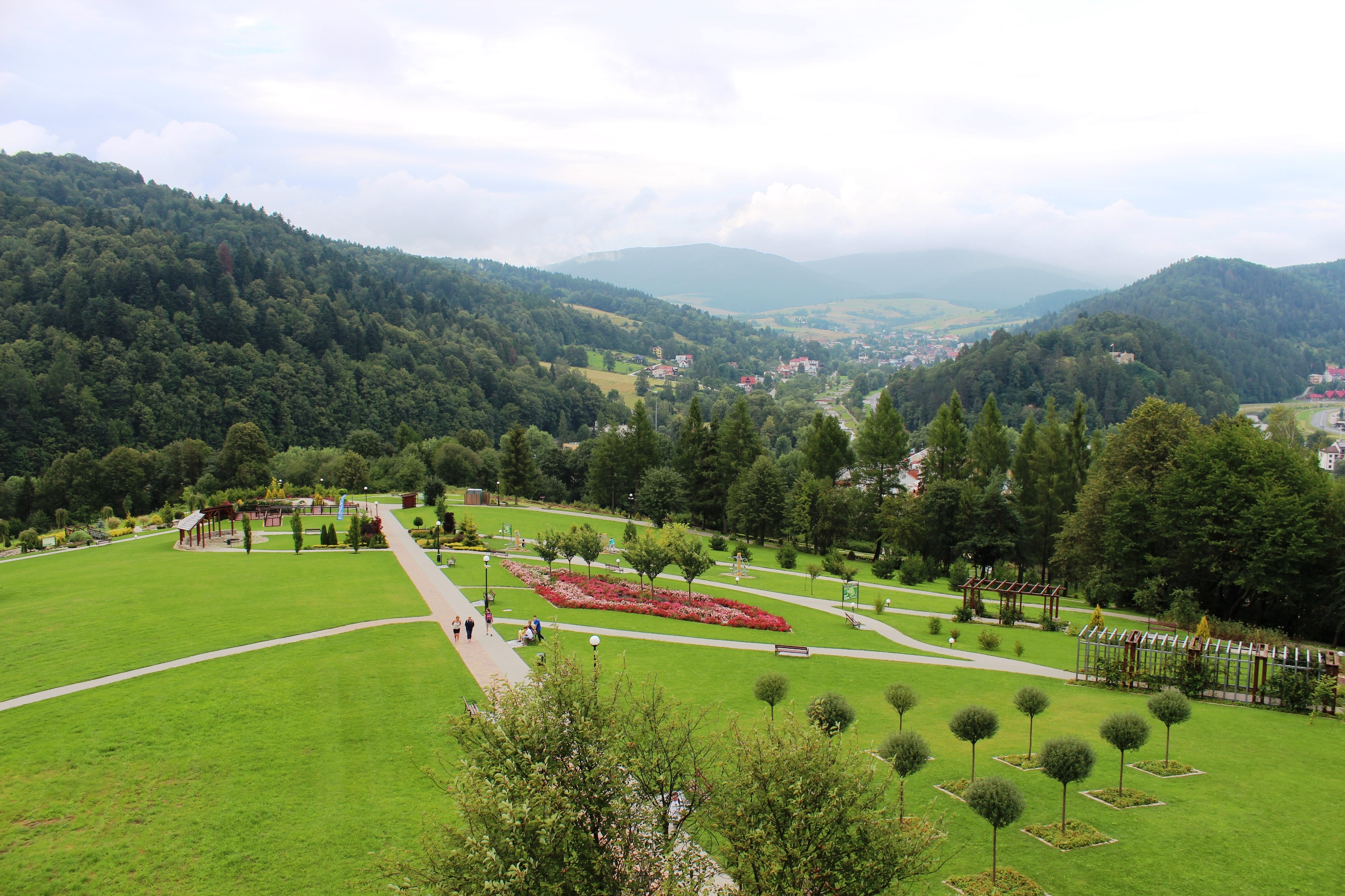 Zapopradzie Park in Muszyna